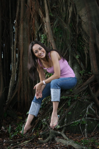 Interview + Photo Shoot with Maya Karin, on her role as an environmental ambassador.